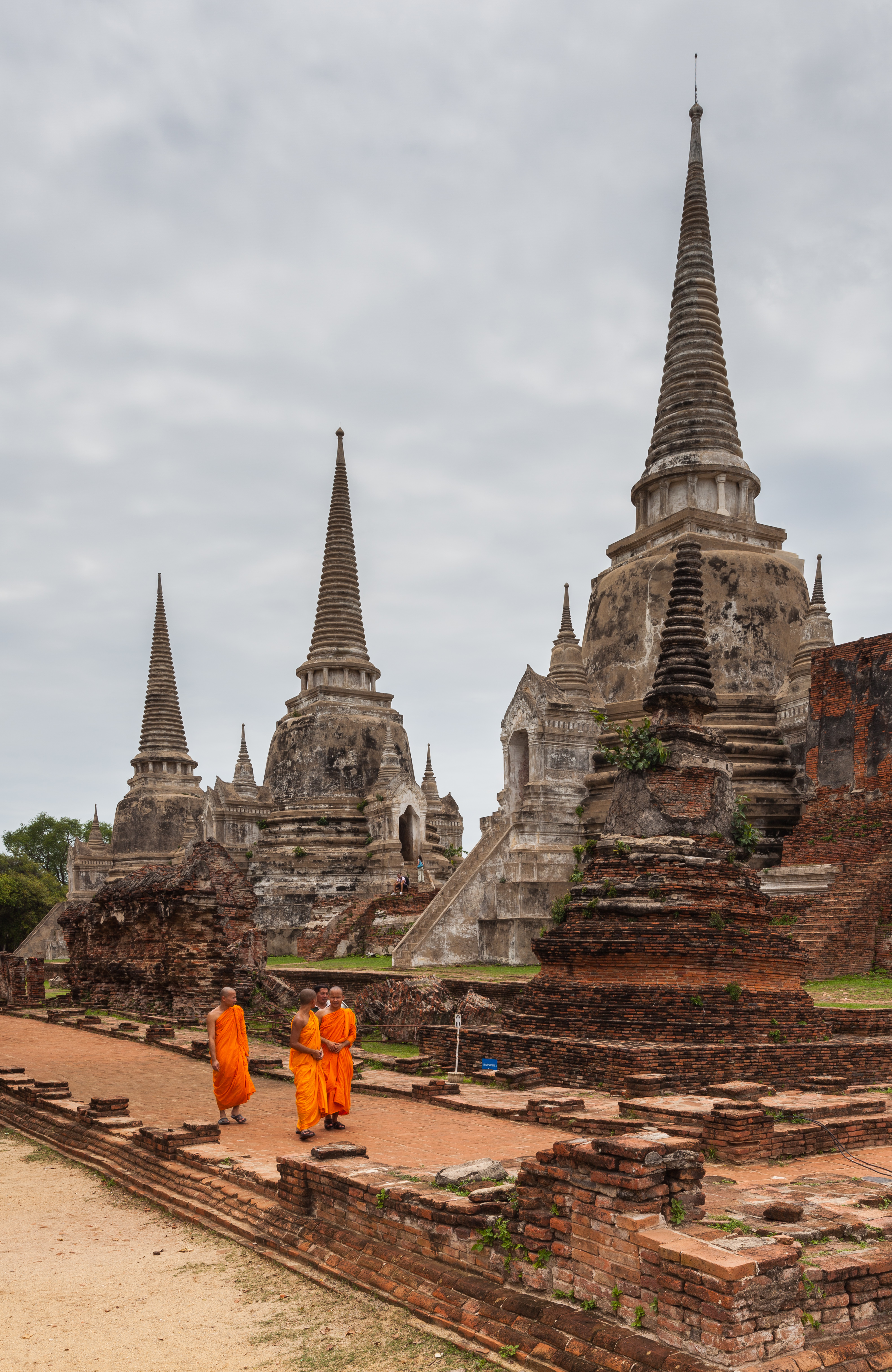 Phra Si Sanphet temple, Ayutthaya, Thailand